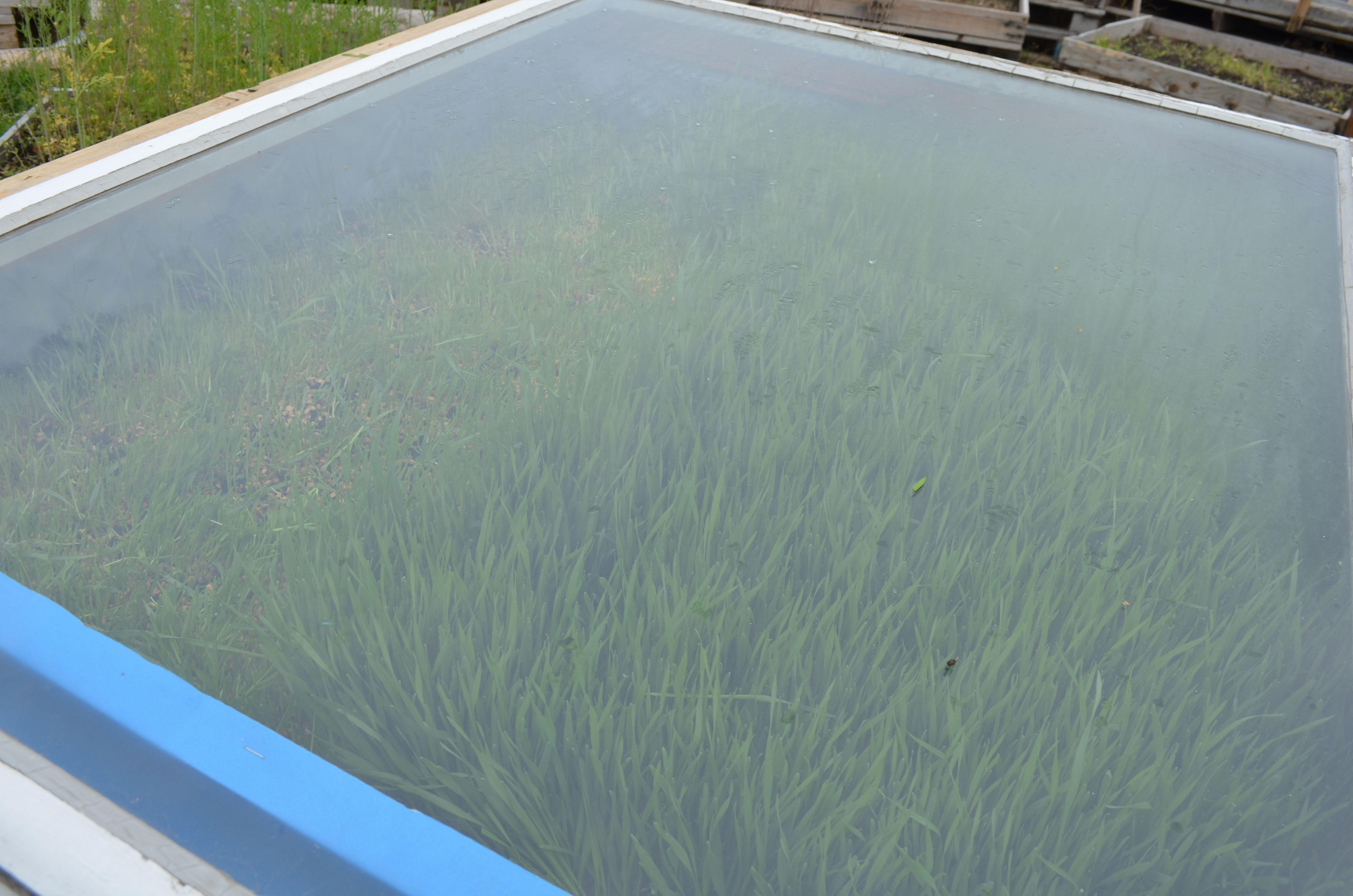 young wheatgrass